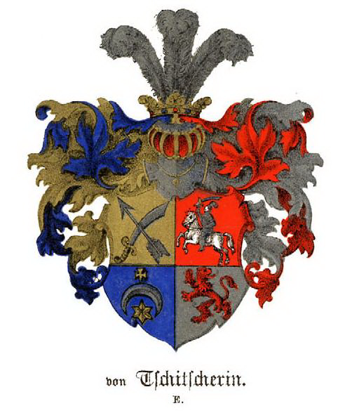 Coat of Arms of Tschitscherin family